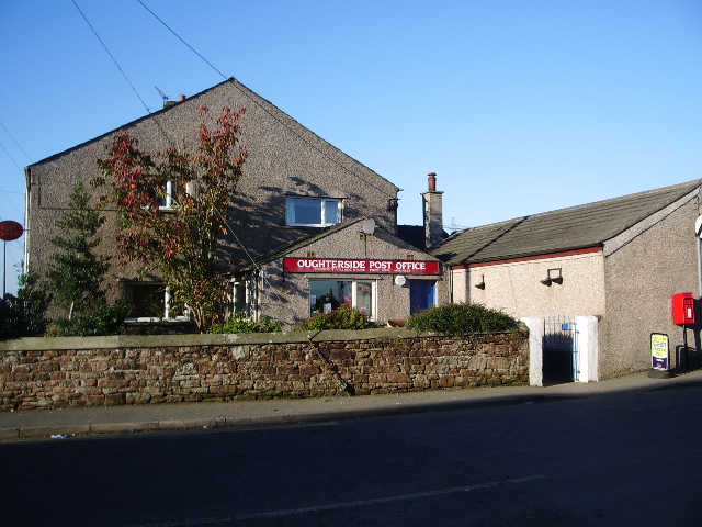 Oughterside Post Office in Prospect Sometimes when a Post Office moves the original name is kept, this would seem to be the case here.